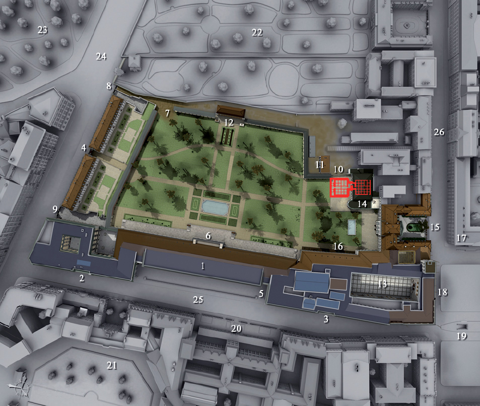 Map of the Reich Chancellery, see legend below Rot markiert: Führerbunker Mittelbau mit Marmorgalerie (Mittelbau Marble Gallery) Eingang zur Reichskanzlei (Entrance to the Reich Chancellery) Eingang zur Präsidialkanzlei (Entrance to the Office of the Reich President) Kasernenbauten (Barracks Buildings) Hebebühne zu den Katakomben (Lift to the Catacombs) Gartenportal zu Hitlers Arbeitszimmer (Garden portal to Hitler's Office) Bauzufahrt zum Führerbunker (Entranceway to the Fuhrer Bunker) Zufahrt – Tiefgarage und Führerbunker (Access - Underground Parking and Fuhrer Bunker) Einfahrt – Tiefgarage und Feuerwehr (Entrance - Parking and Fire Brigade) Zufahrt Führerbunker (Access - Fuhrer Bunker) Haus Kempka (Kempka House) Gewächshaus (Greenhouse) Ehrenhof (Courtyard of Honor) Festsaal mit Wintergarten (Ballroom and Conservatory) Alte Reichskanzlei (Old Reich Chancellery) Speisesaal (Dining Hall) Propagandaministerium (Ministry of Propaganda) Erweiterungsbau zur Reichskanzlei (Reich Chancellery Extension) U-Bahn-Eingang Wilhelmplatz (Wilhelmsplatz Subway Entrance) Kaufhaus Wertheim (Wertheim Department Store) Leipziger Platz (Leipziger Plaza) Ministergärten (Ministry Garden) Tiergarten (Great landscape park Tiergarten) Hermann-Göring-Straße (Herman Goring Street) Voßstraße (Voss Street) Wilhelmstraße (Wilhelm Street)